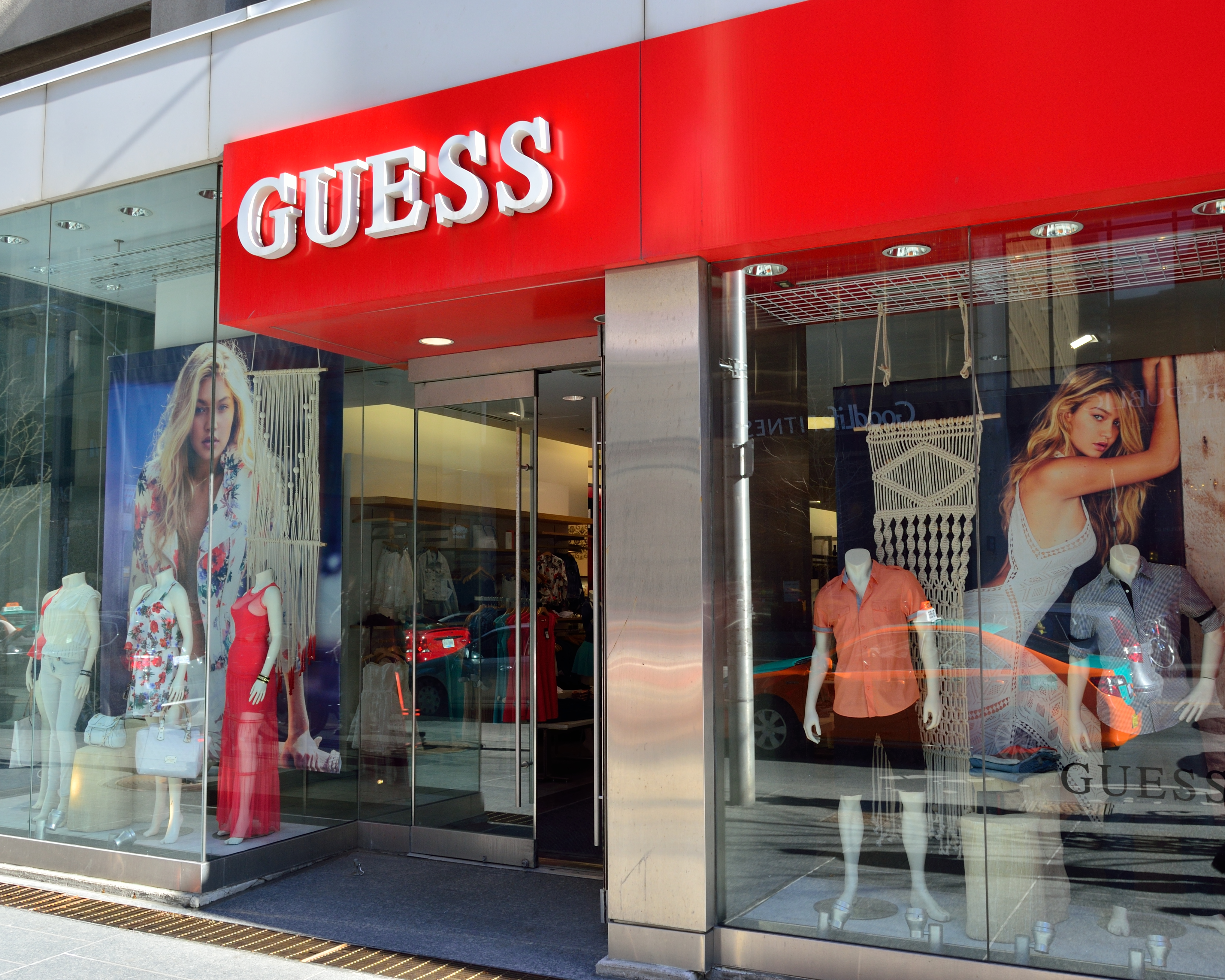 Guess on Bloor Street West, Toronto